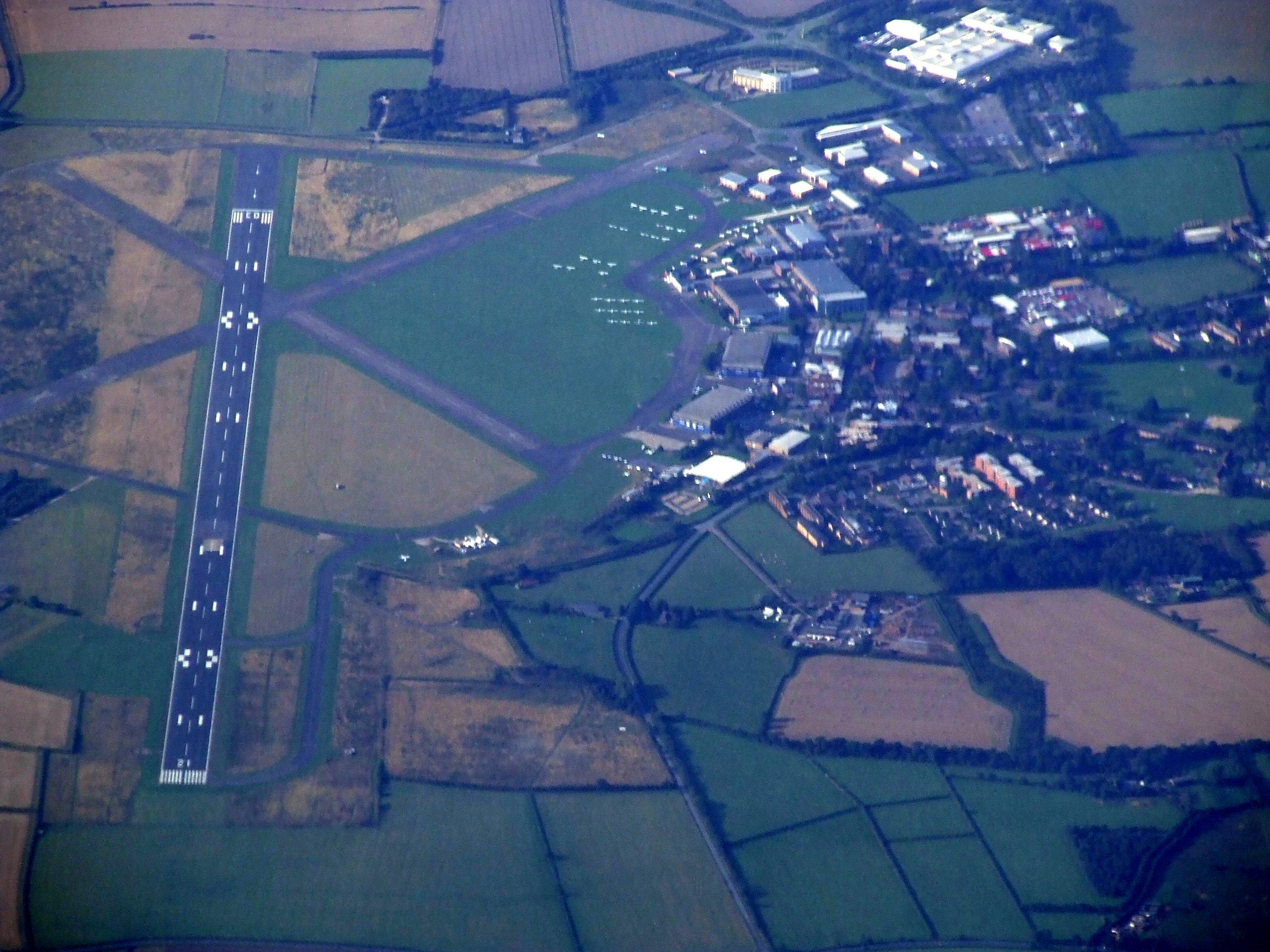 A former RAF base which is now a commercial airport. More information from this . Viewed from a Glasgow bound flight from Luton.